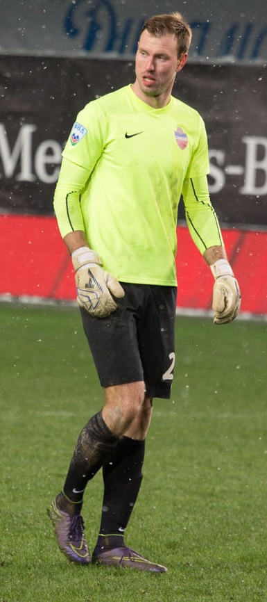 Mikhail Oparin with FC Yenisey Krasnoyarsk in a game against FC Dynamo Moscow.